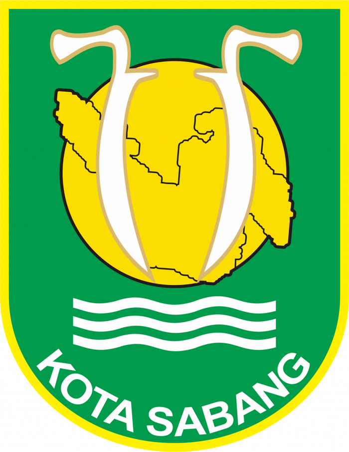 Shield of the City of Sabang